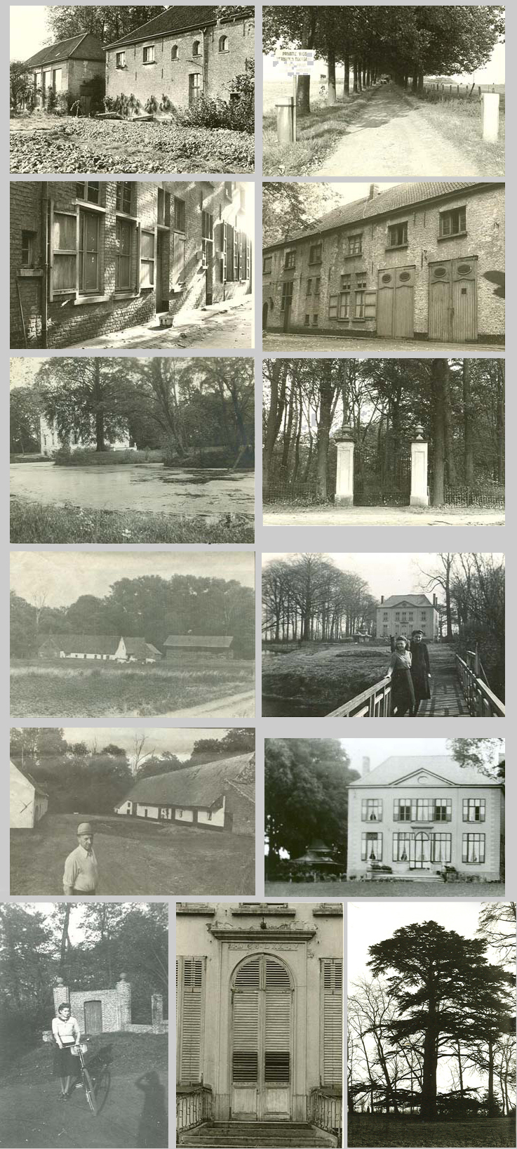 Old pictures of the castle of Surmont in Cortryck in Belgium